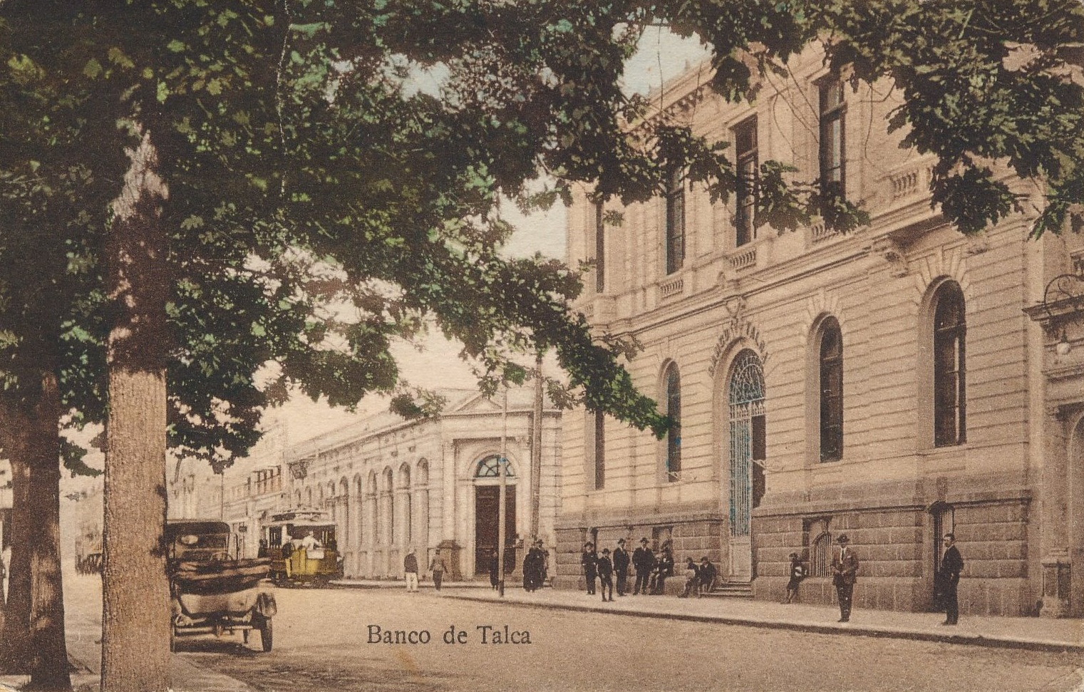 Banco de Talca before the 1928 earthquake